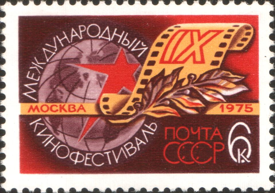 1975 USSR 6 kopeks. IX Moscow International Film Festival